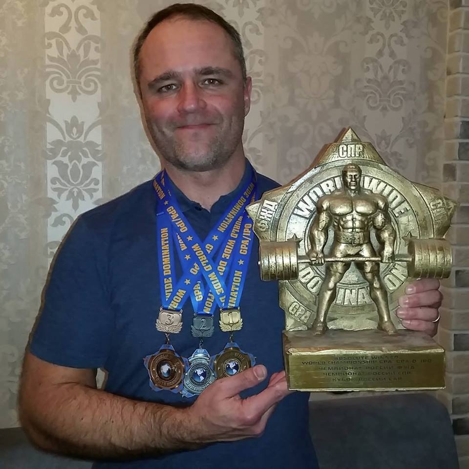 Mikko Mäntymäki at Dolgoprudnyi 2016